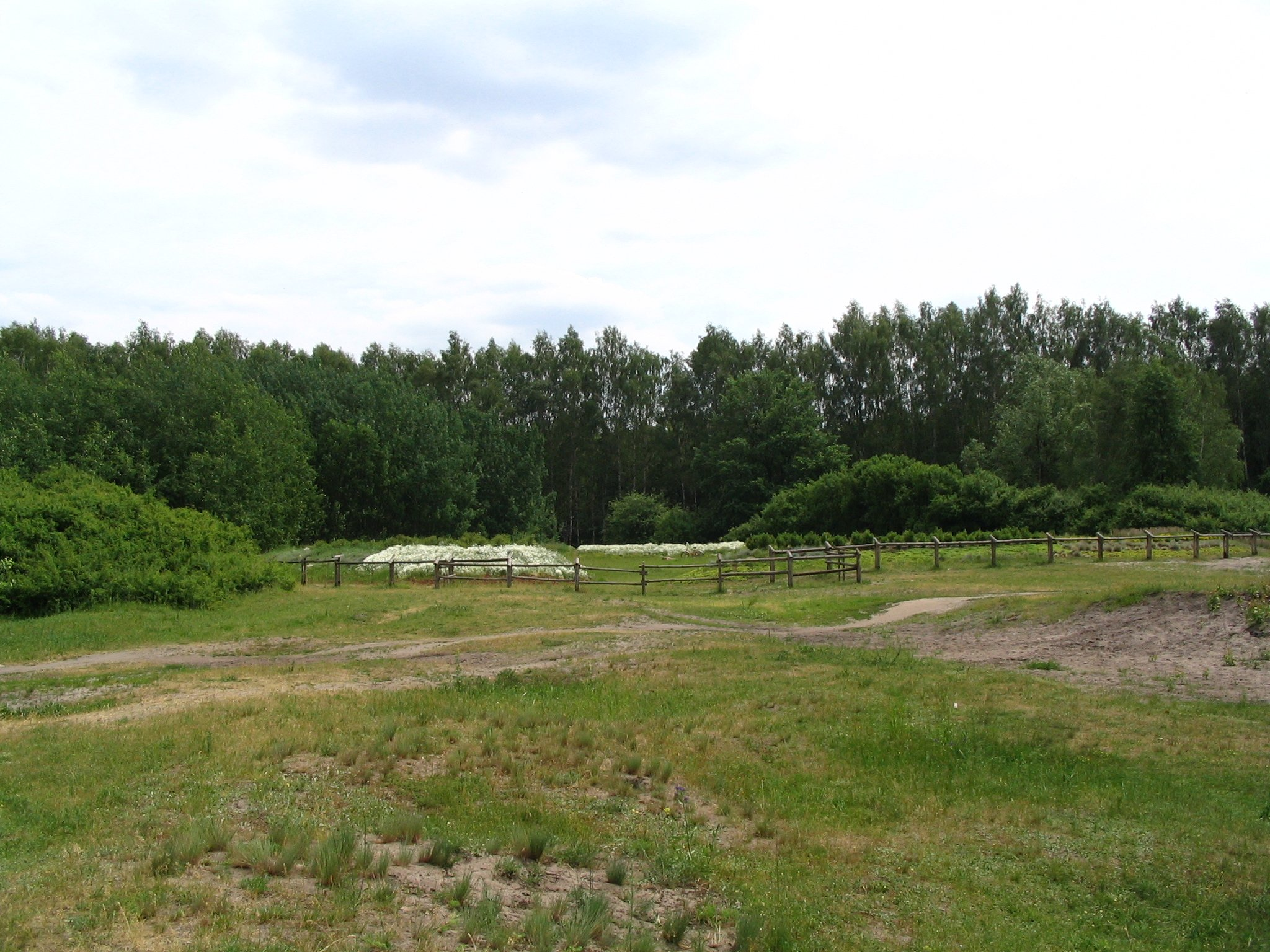 Remainigs of gord from X century on Bródno (Warsaw).